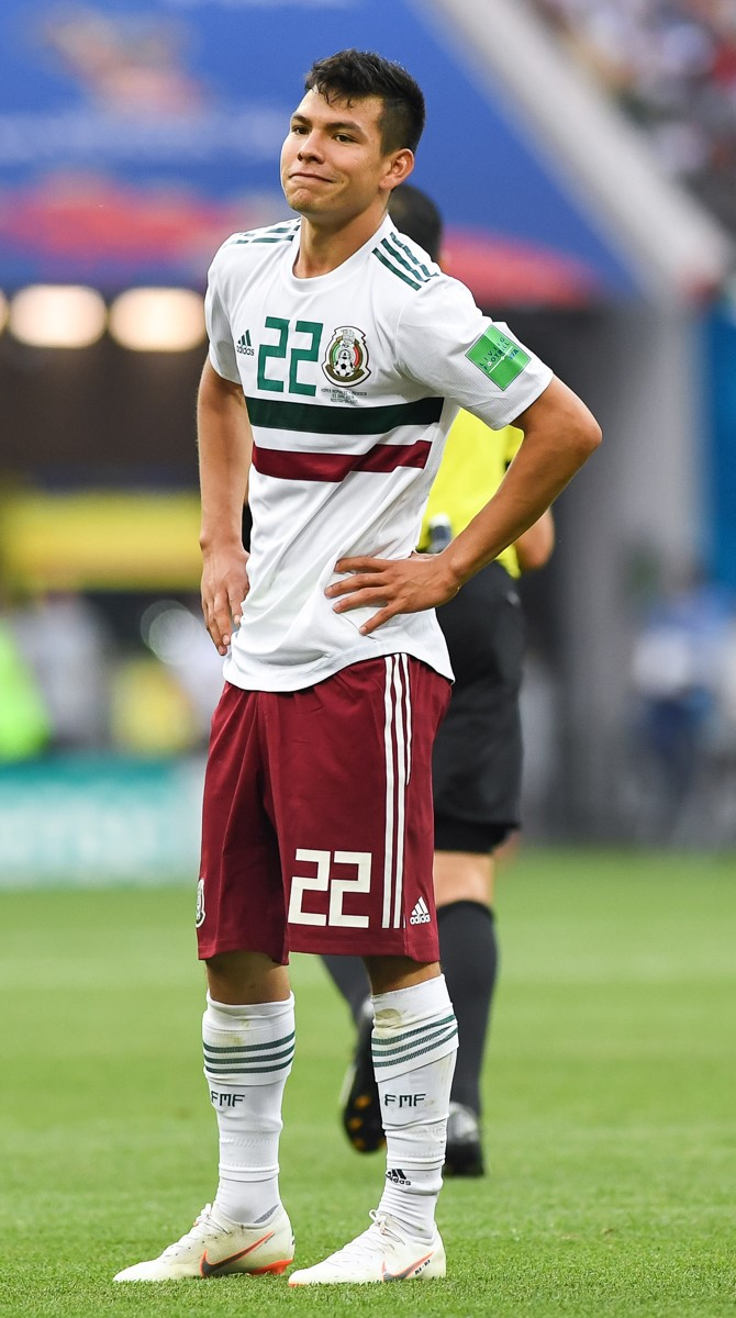 Hirving Lozano